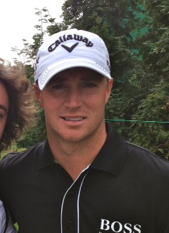 Alex Noren at the 2012 Omega European masters